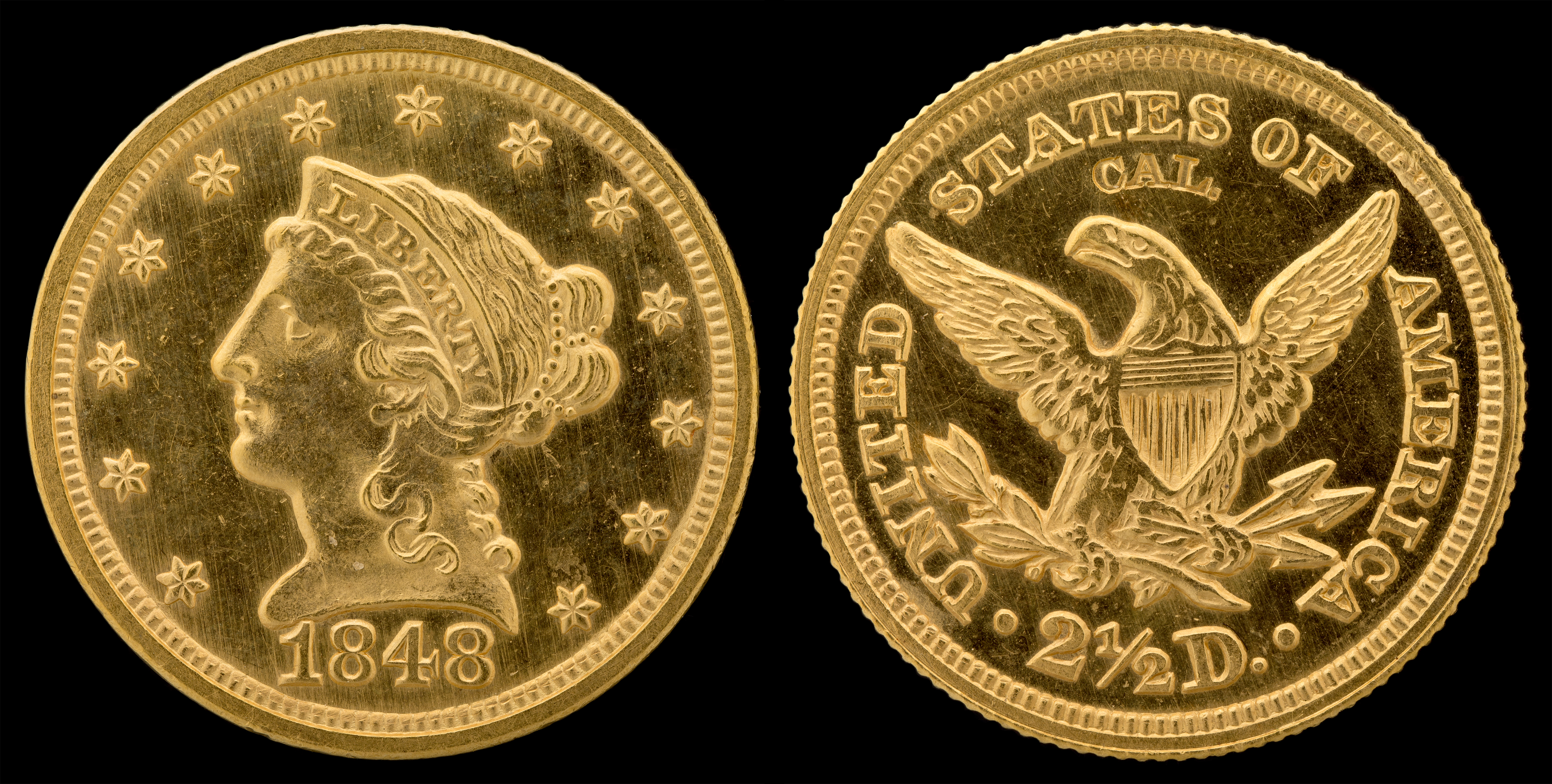 1848 G$2½ Liberty (or Coronet) Head, stamped "CAL" on the reverseGold (fineness 0.9000), 18mm, 4.18g, designed by Christian GobrechtJN2015-6726-27